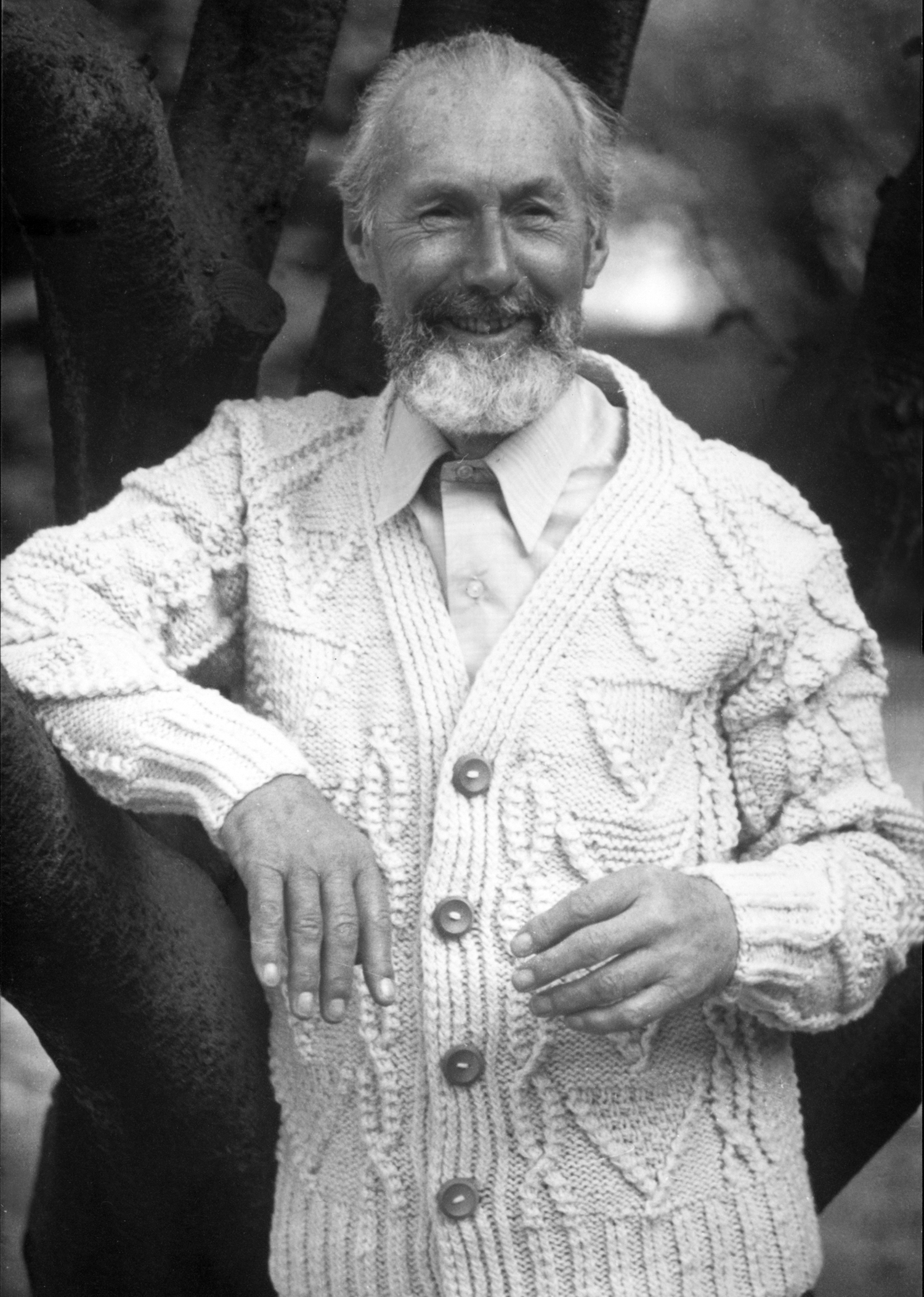 Image of Pádraig A. Ó Síocháin an Irish journalist, lawyer, Irish language activist, author and entrepreneur in 1985, aged 80 years (youngest son of D. D. Sheehan MP).